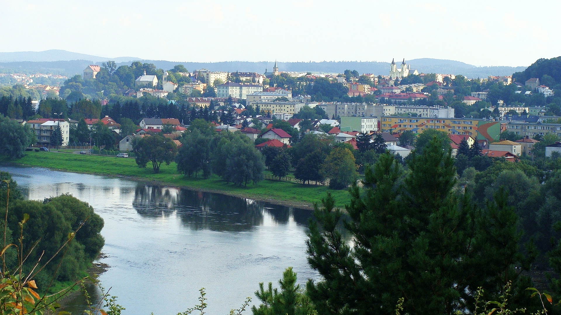 Sanok view from hill near Trepcza. 2008, Загальний вид на місто Сянік, від сторони Трепчі. У підніжжя міста пливе срібнолентий Сян; його закрута біля малого Болоння., Sanok od strony wsi Trepcza. 2008